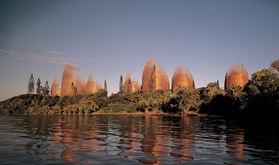 Nouméa